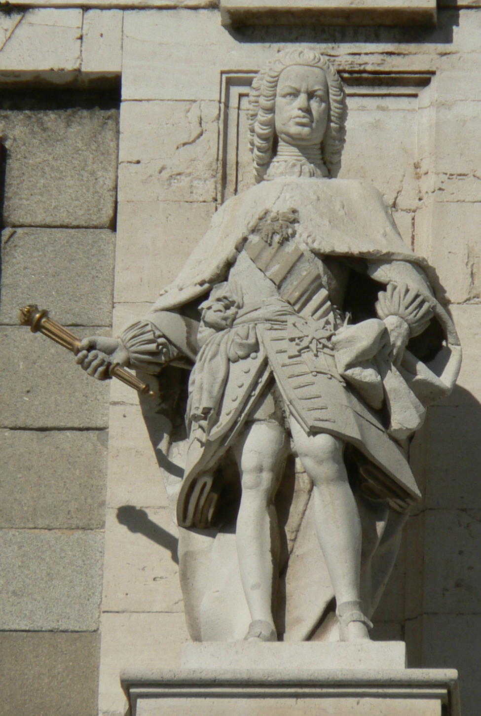 The statue of Fernando VI, king of Spain. In the Ático of the Royal Palace, Madrid.